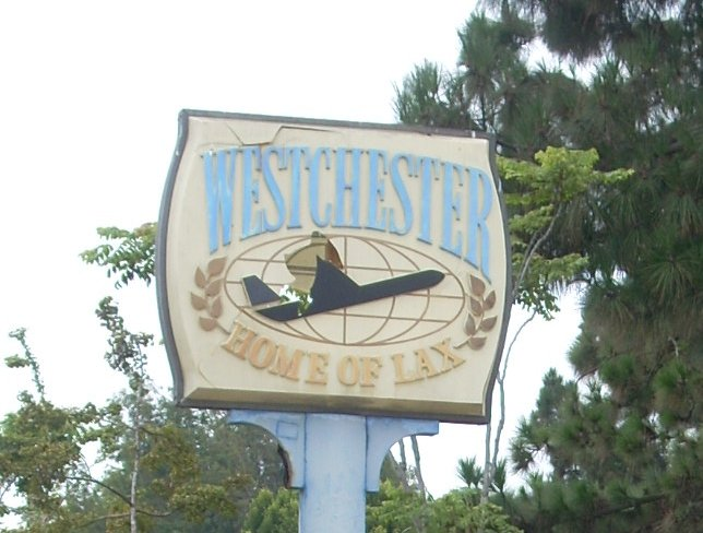 Dilapidated "Westchester, Home of LAX" sign at Westchester Park in Westchester neighborhood of Los Angeles, California.